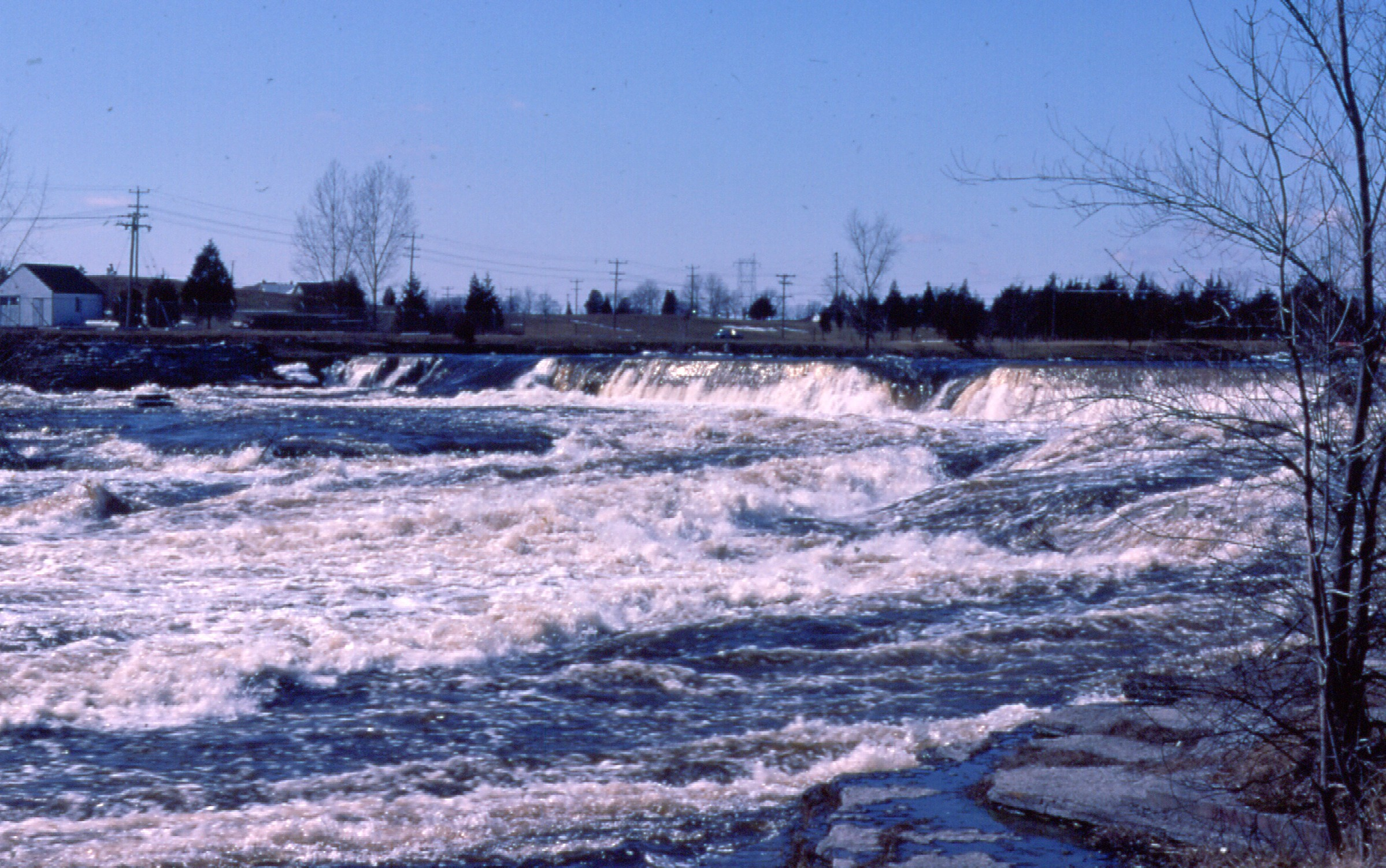 Spring run-off on the Moira River near Belleville, Ontario, March 1975